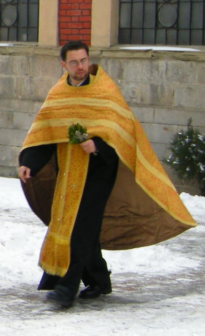 Bulgarian orthodox priest, going out of the church in winter.